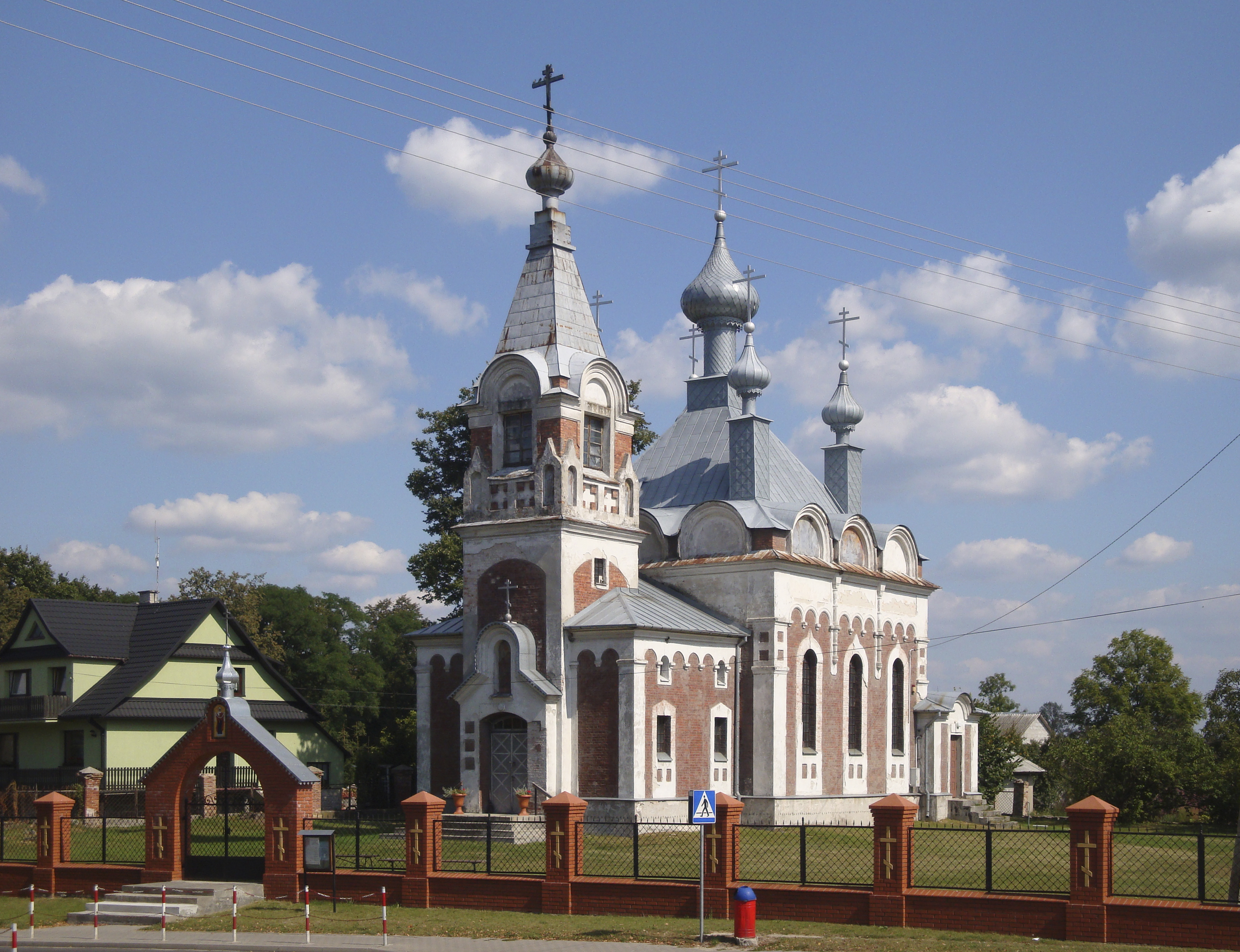 Orthodox church in Sławatycze, Poland